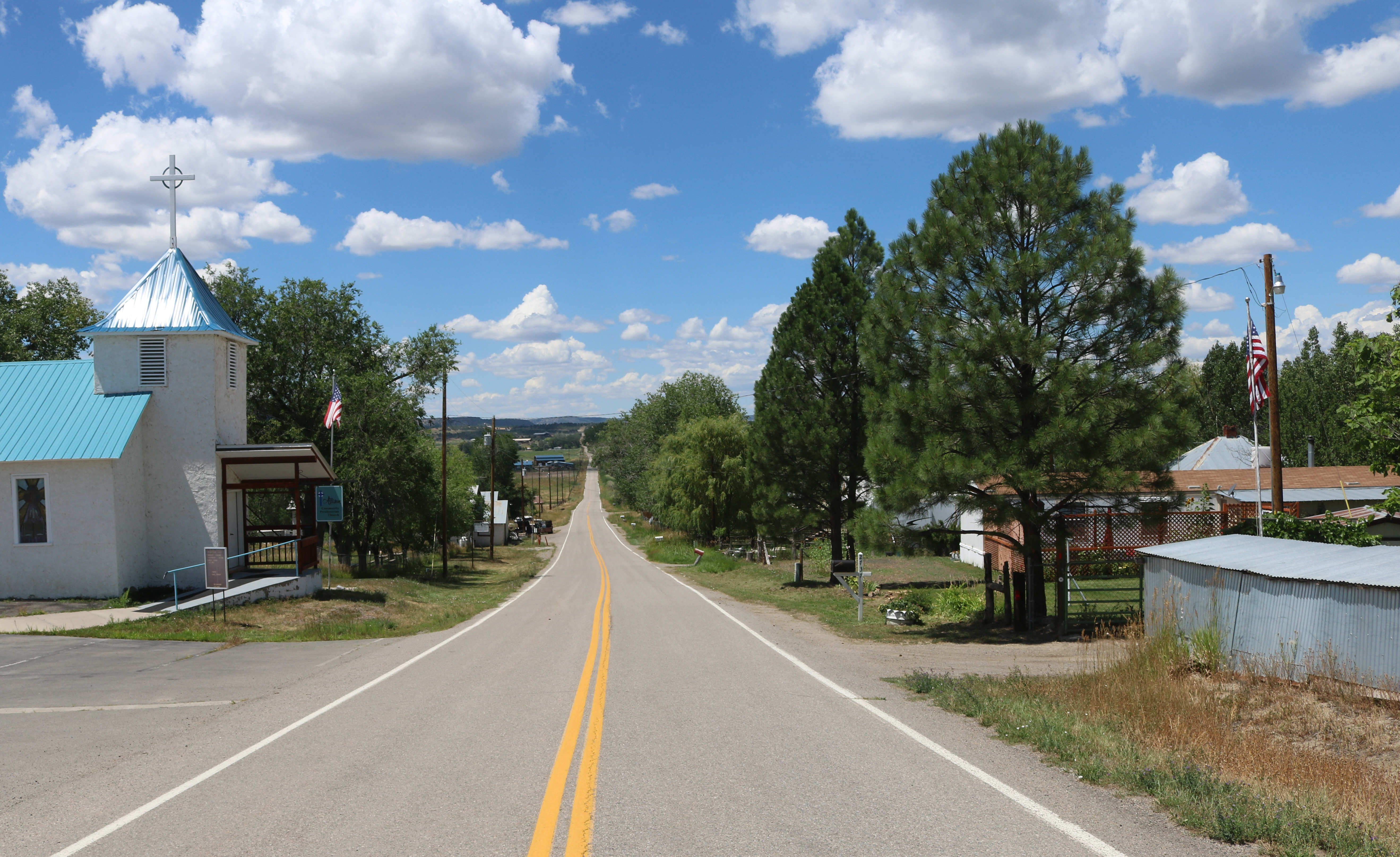 The unincorporated community of Allison, Colorado, in La Plata County. The church on the left is the Allison Community Presbyterian Church. The view is to the west along County Road 329. The community is located within the Southern Ute Indian Reservation.